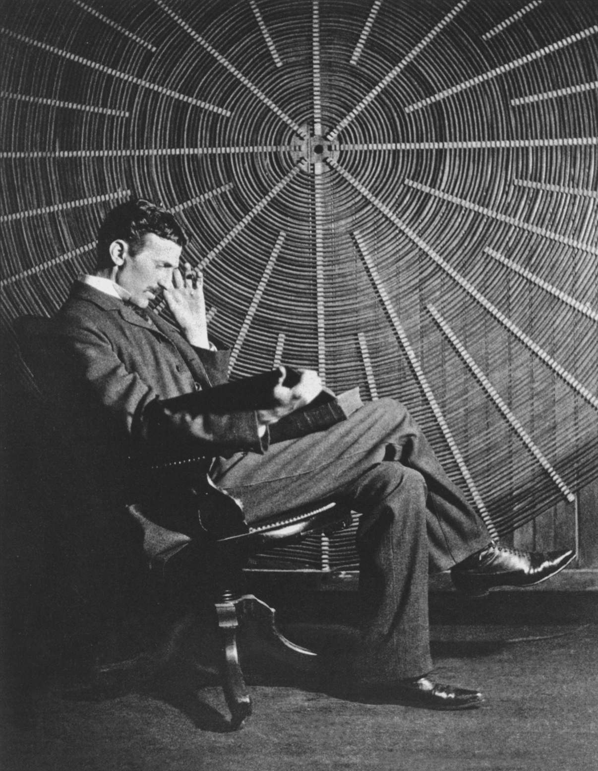 Nikola Tesla, with Rudjer Boscovich's book "Theoria Philosophiae Naturalis", in front of the spiral coil of his high-voltage Tesla coil transformer at his East Houston St., New York, laboratory.